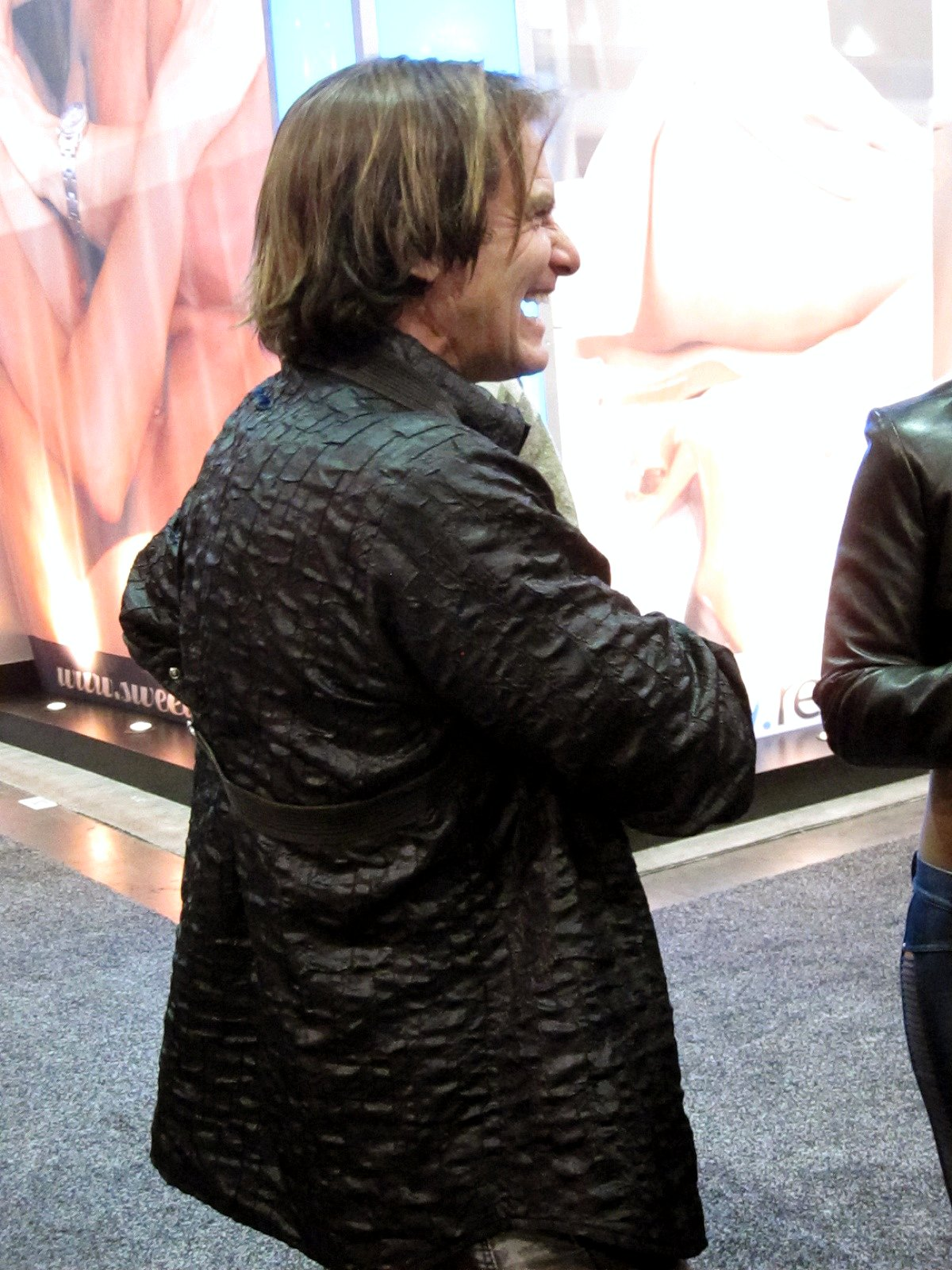 Evan Stone Chatting it Up at the Adult Entertainment Expo.